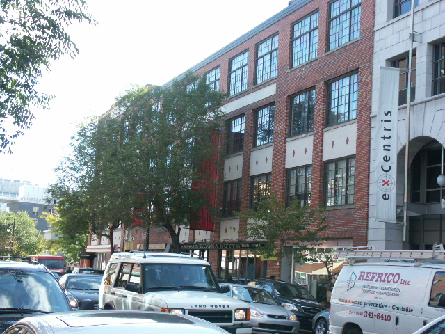 Softimage building, facade on Saint-Laurent boulvard, Montreal. Photo by: User:Gene.arboit